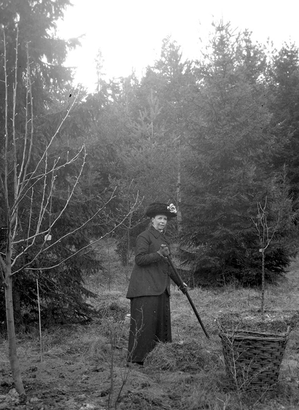 depicted place: Uppland, Rasbo hd, Rasbo (Sverige (SE))